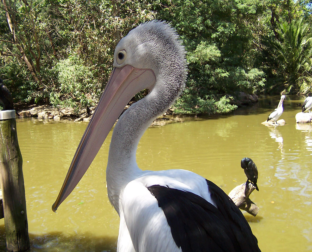 Australian Pelican Profile